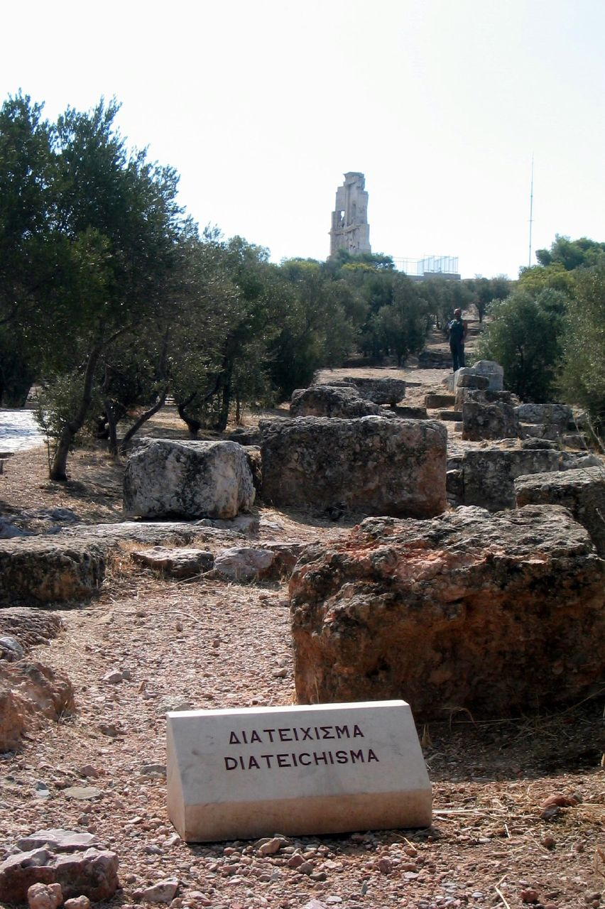 Remains of the diateichisma in Athens.